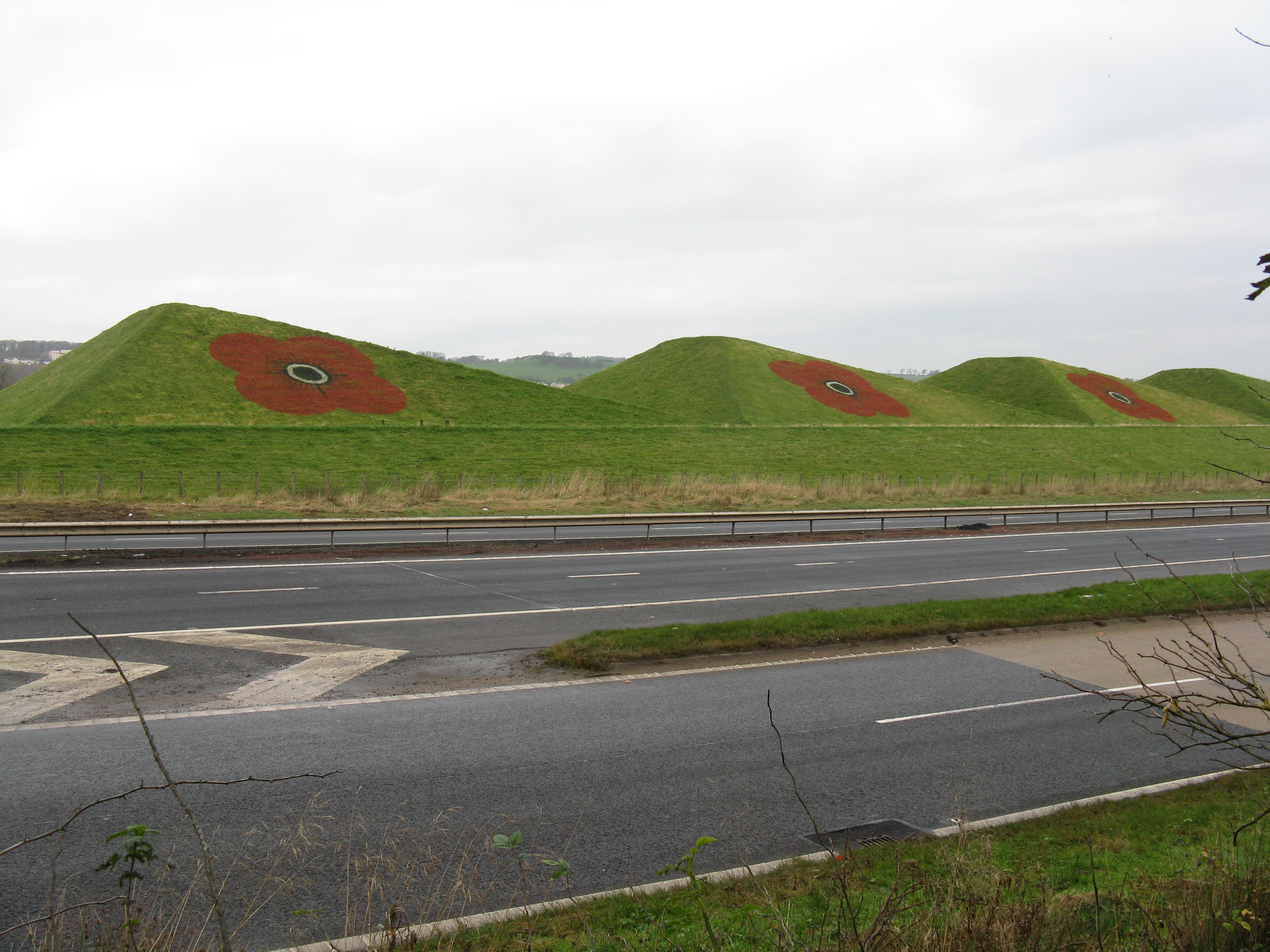 We Shall Remember Them!